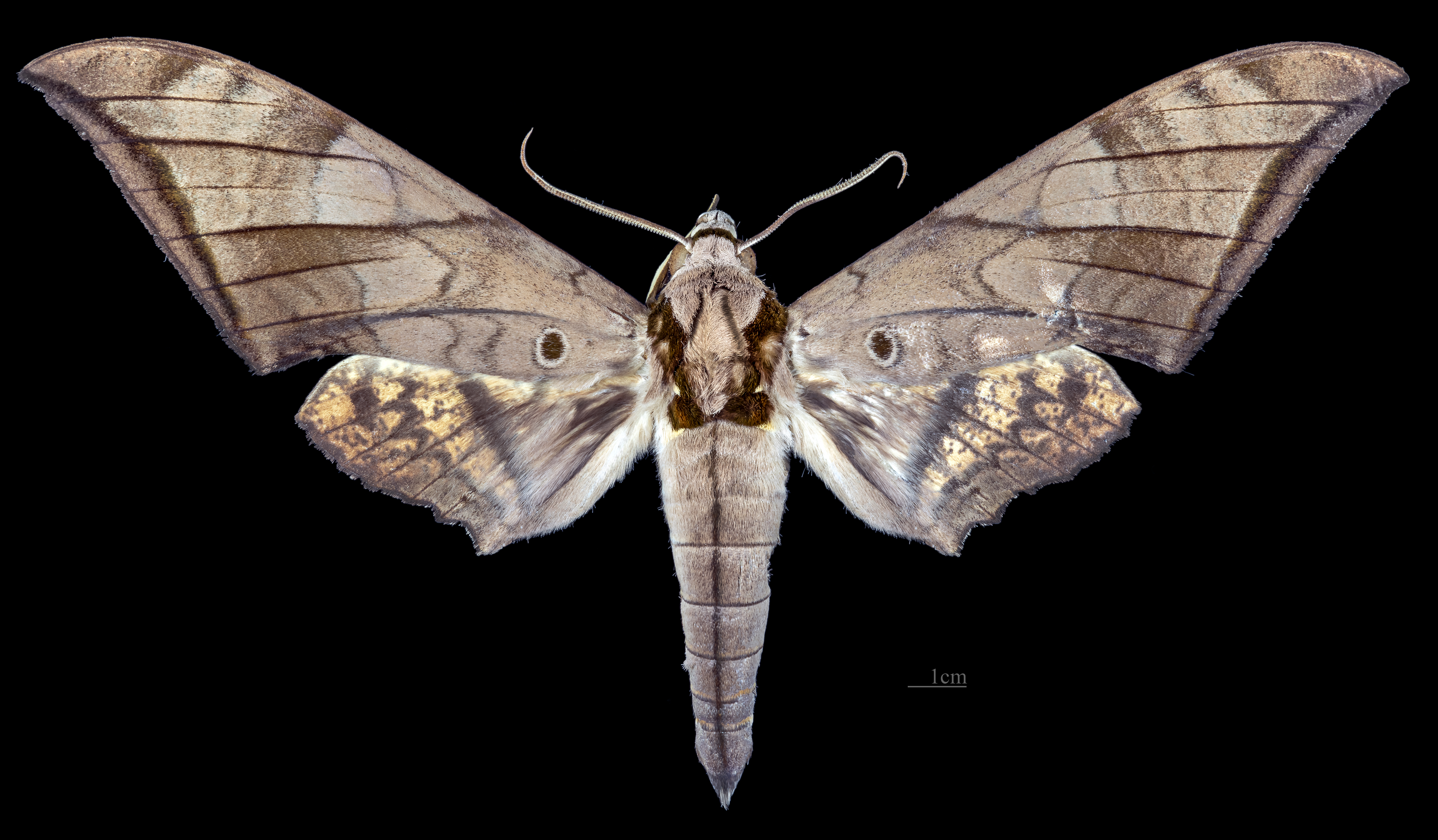 Ambulyx phalaris - Dorsal side Collection of the Mathematician Laurent Schwartz